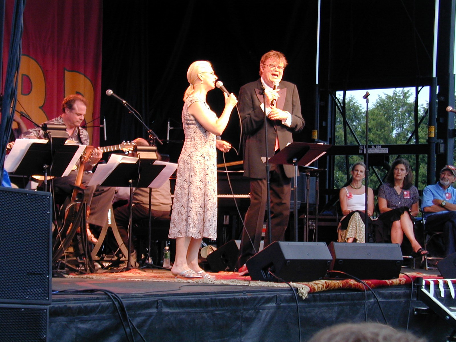 A Prairie Home Companion's 2005 Rhubarb Tour: Prudence Johnson and Garrison Keillor, live on stage at Shelburne, Vermont